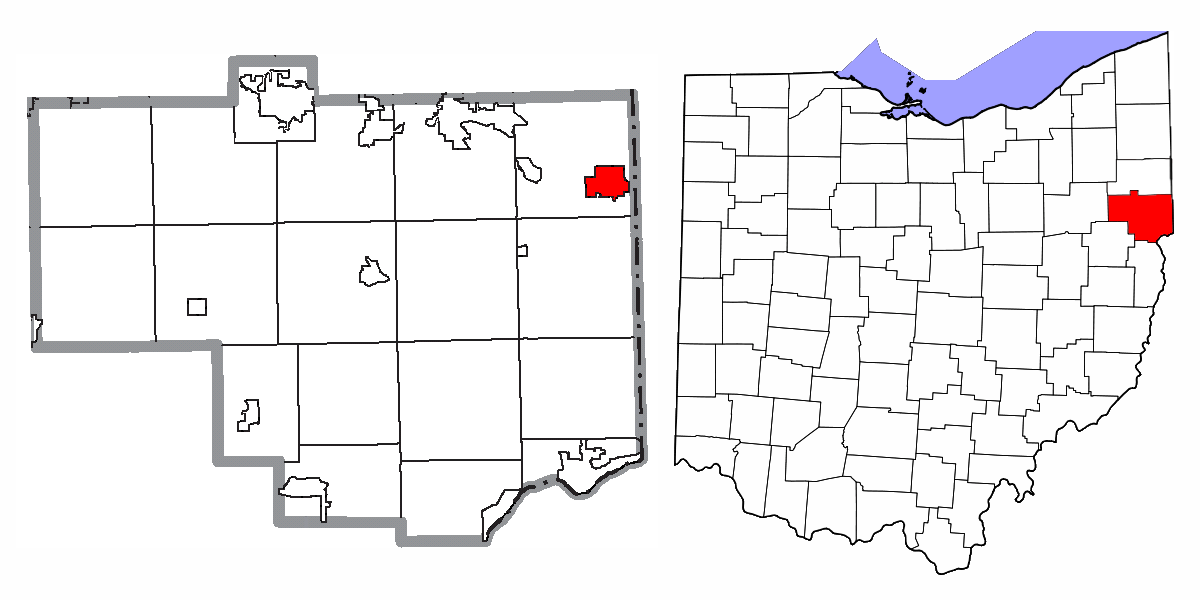 Map highlighting Village of East Palestine, Columbiana County, Ohio.